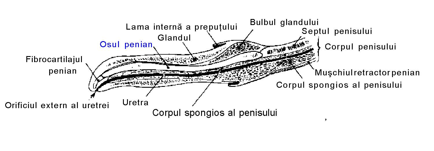 Penis bone of dog